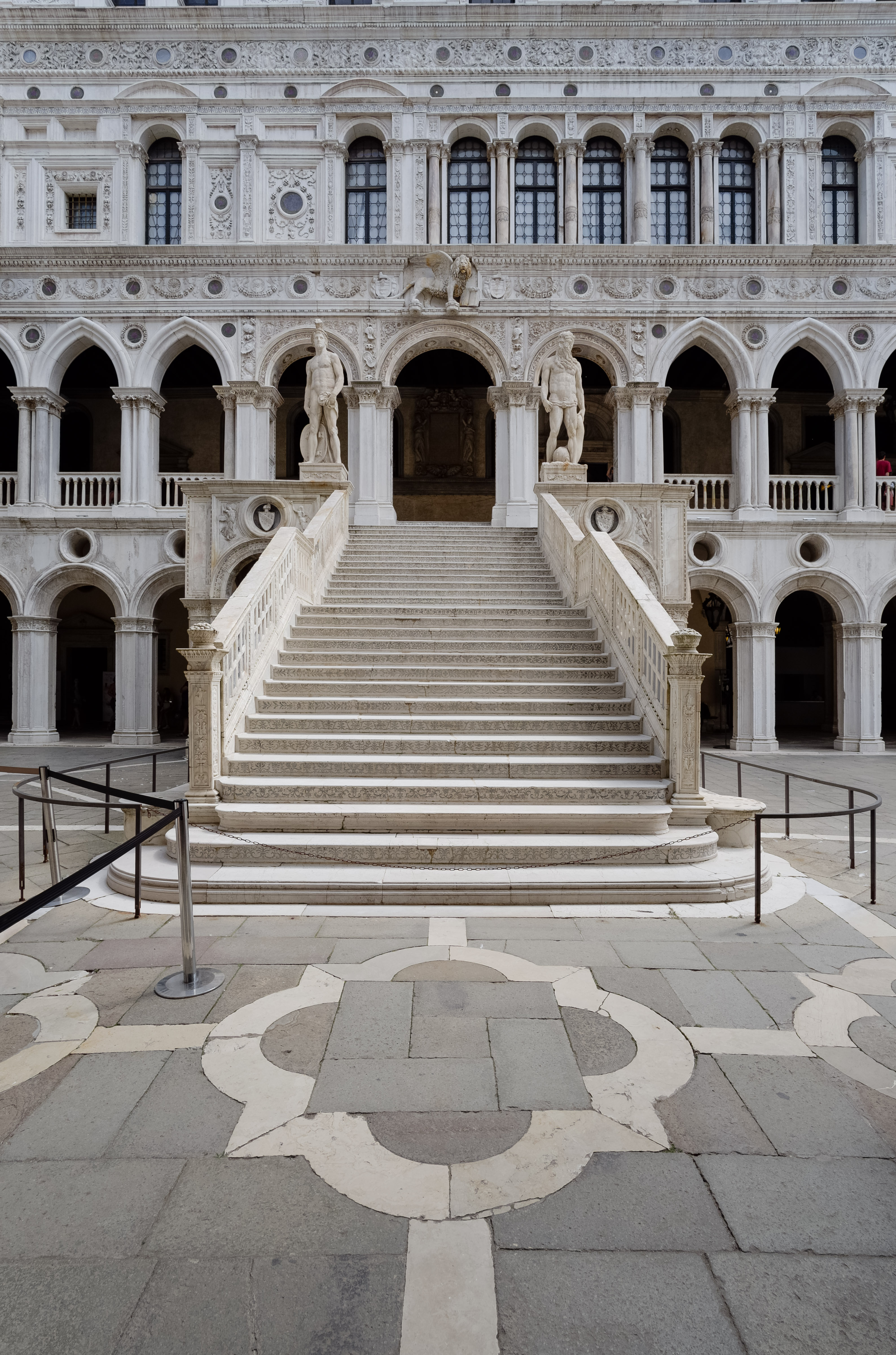 The scala dei giganti (Giants' staircaise) surrounded by the statues of Mars and Neptune, in the courtyard of the Doge's palace, in Venice, Italy.